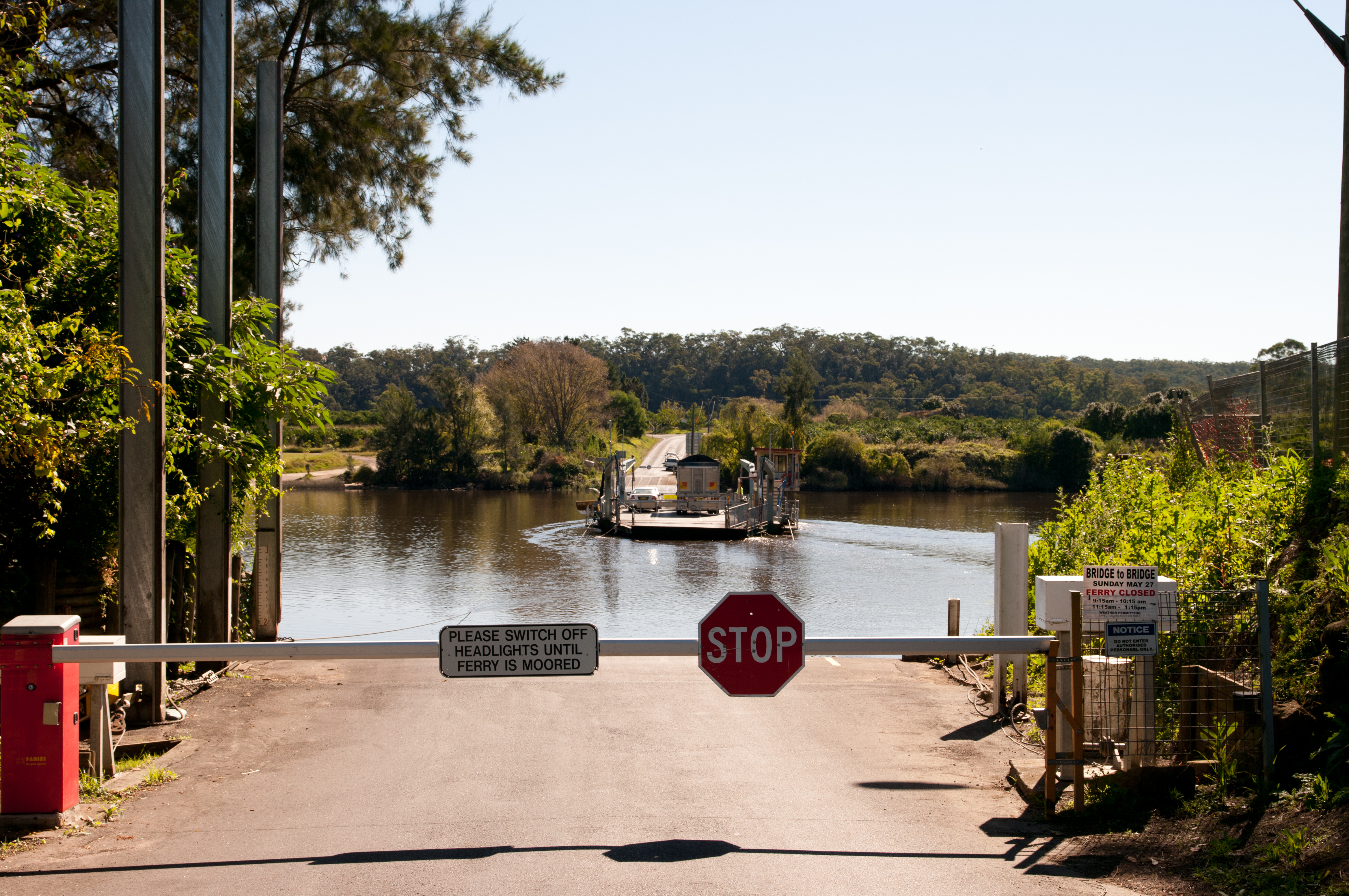 Sackville Ferry is a cable ferry across the Hakesbury river from the Sackville side of the river